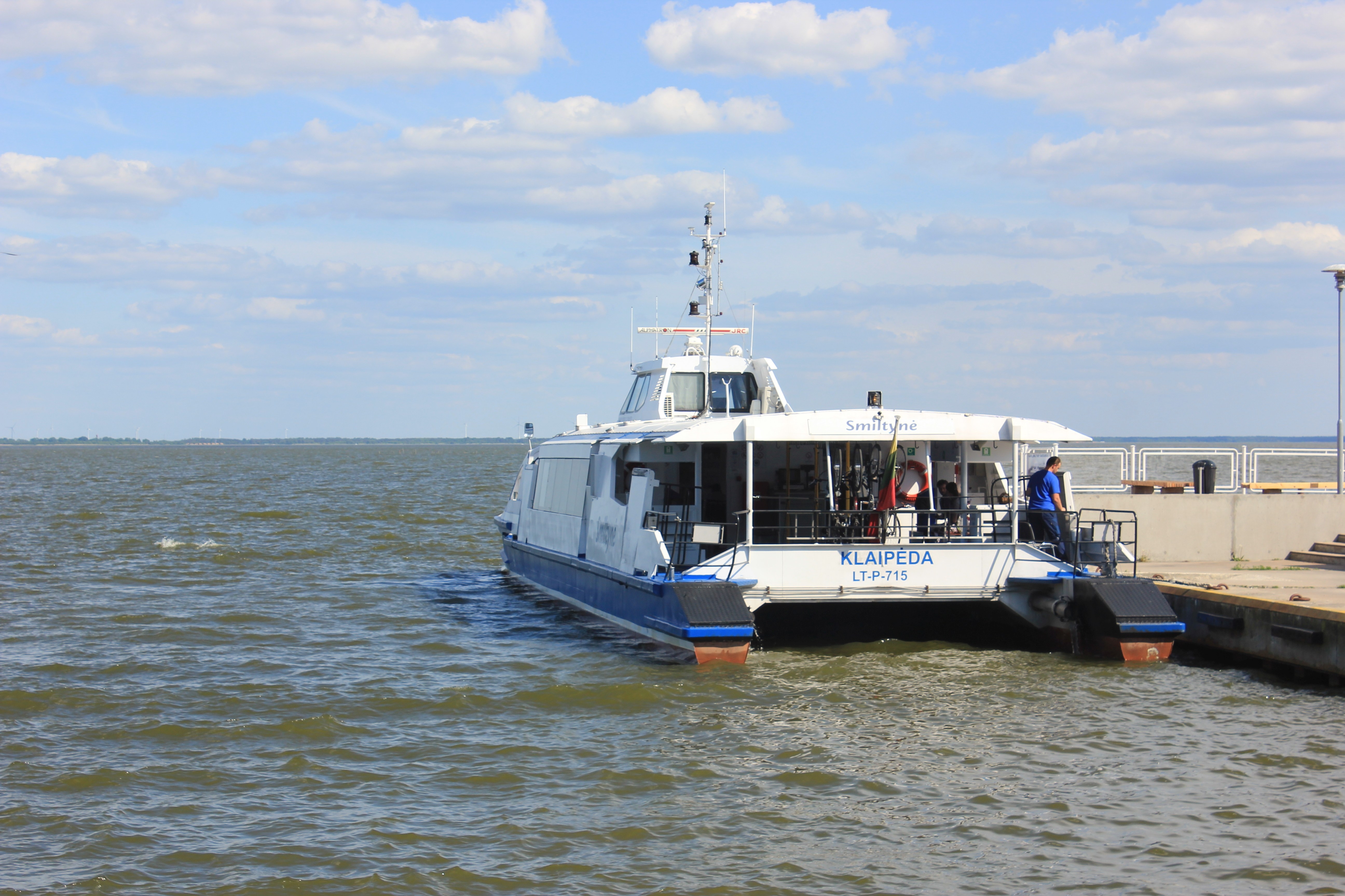 Juodkrantė - ship Smiltynė